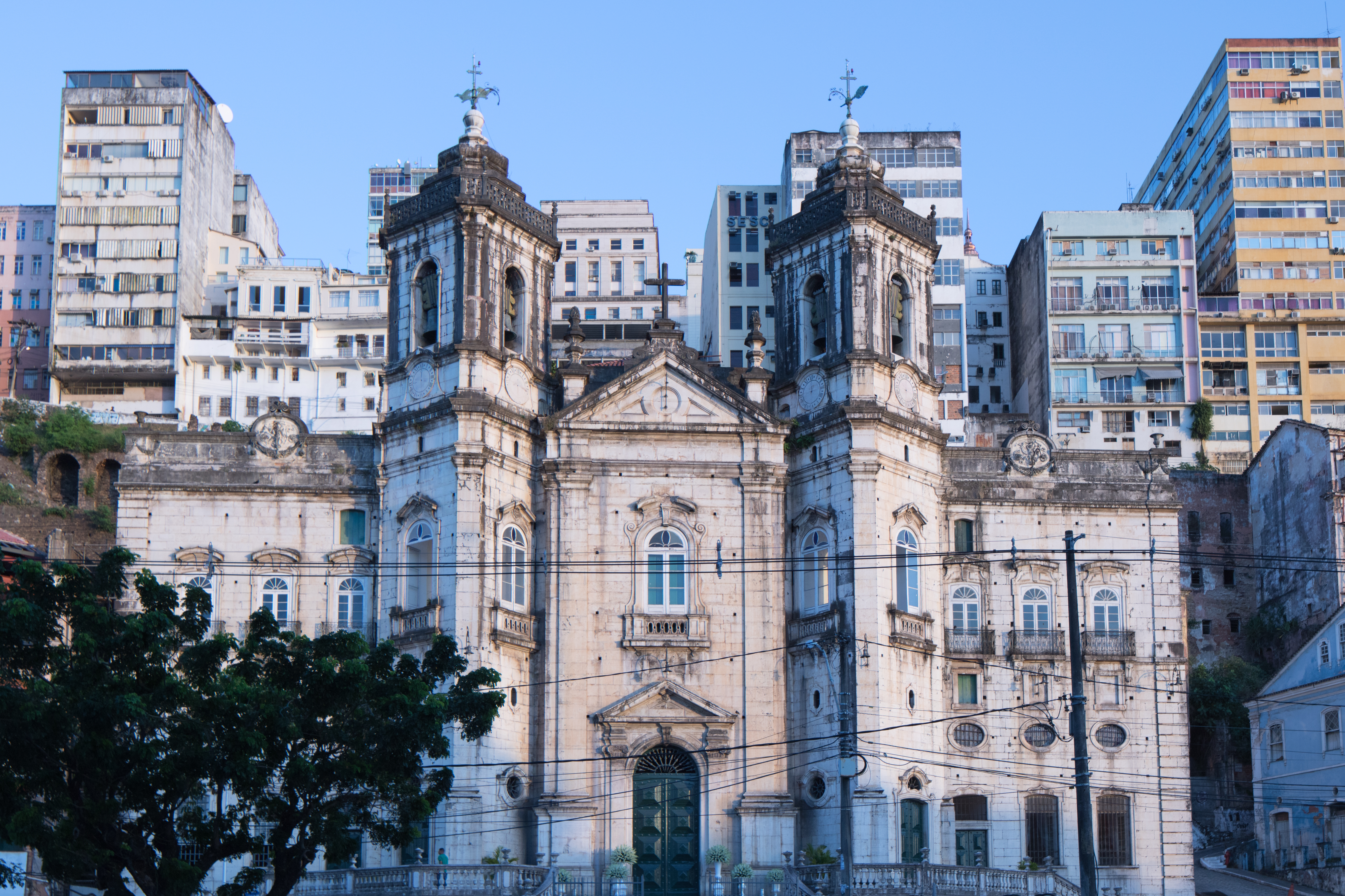 Nossa Senhora da Conceição da Praia, Salvador, Bahia, Brazil.